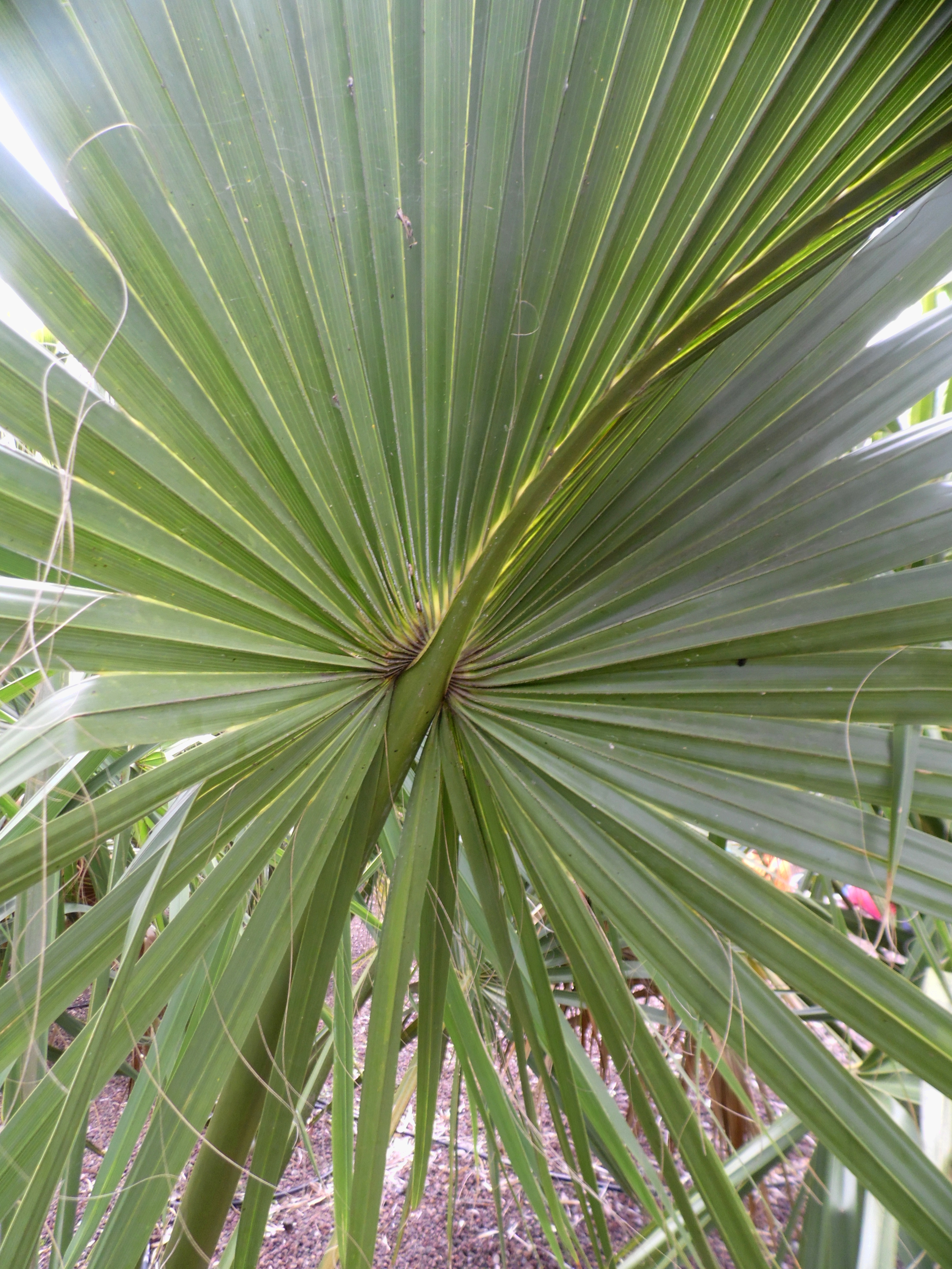 Sabal yapa in Jardín Botánico Canario Viera y Clavijo, Gran Canaria